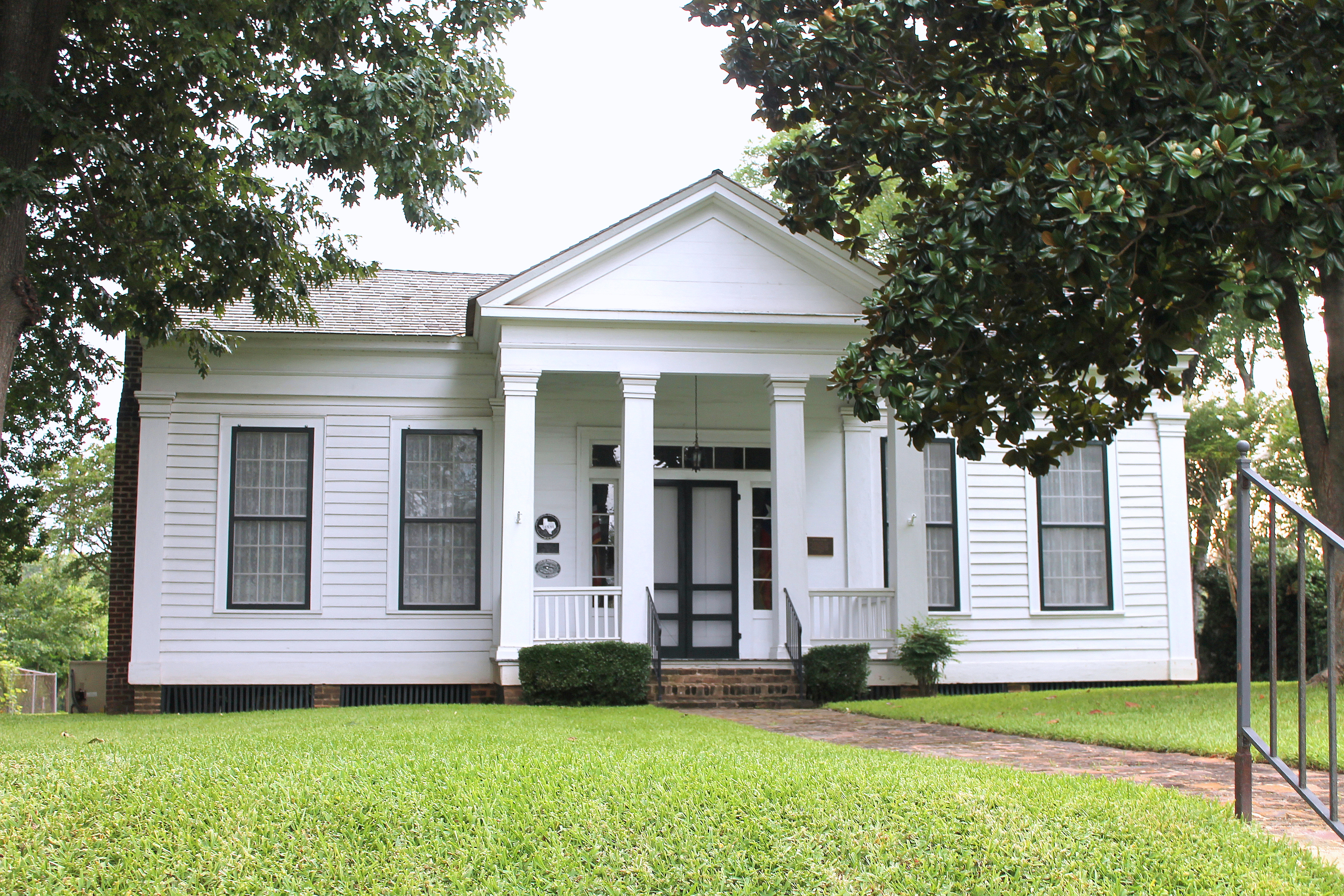 Howard House Museum in Palestine, Texas